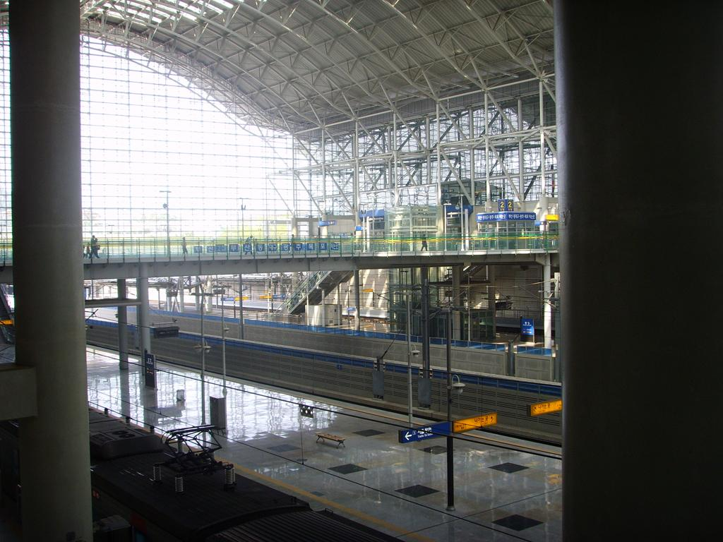 Gwangmyeong Station (Gyeongbu Highspeed Line), Iljik-dong, Gwangmyeong-si, Gyeonggi-do